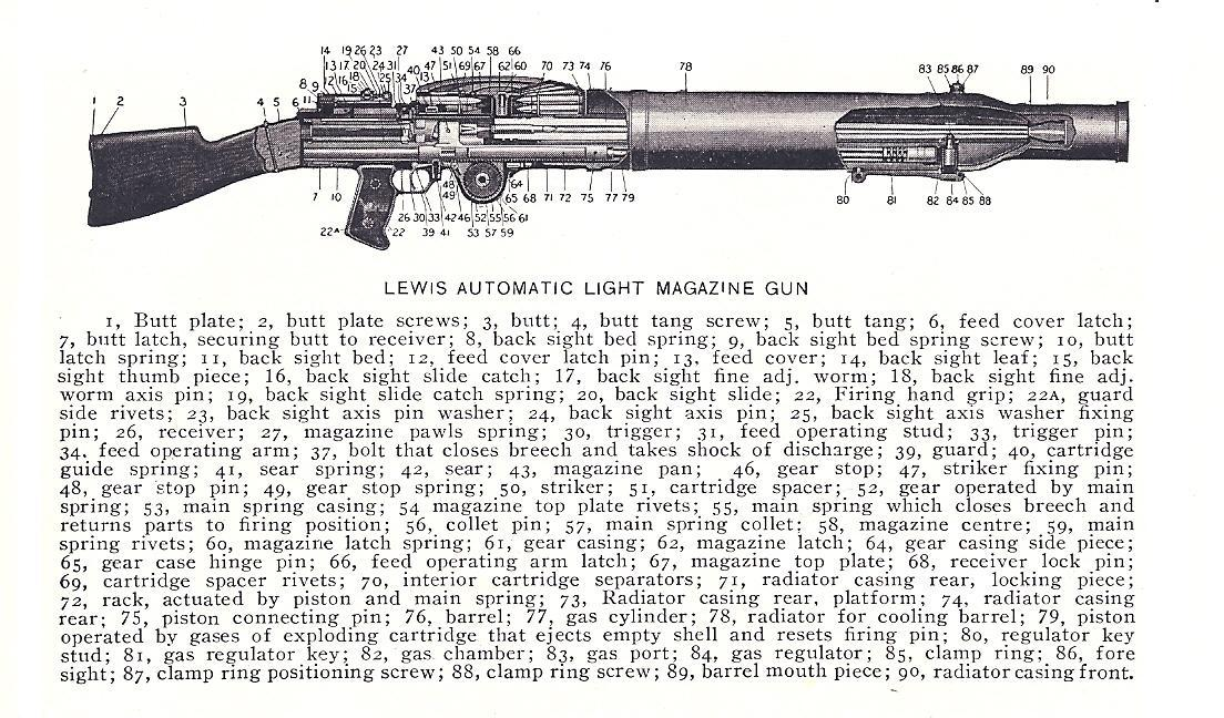 Lewis Gun - List of parts